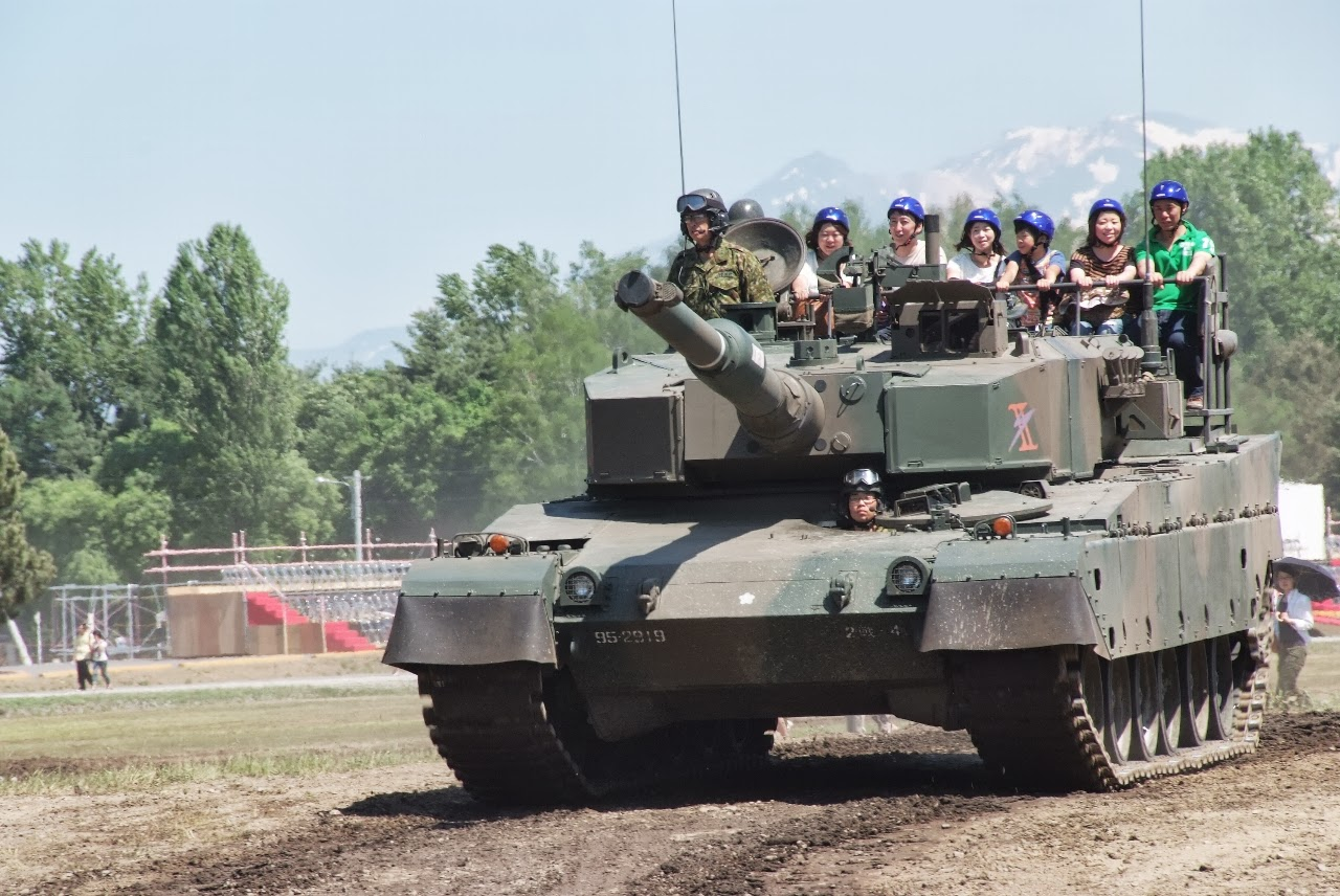 Title ・第２師団創立６３周年及び旭川駐屯地開設６１周年記念行事DSCF9023.jpg Album Events and Public Relations (イベント・行事・広報活動等) 第２師団創立６３周年及び旭川駐屯地開設６１周年記念行事・体験搭乗（旭川）